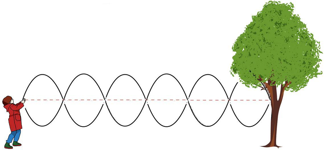 Standing wave in a rope.